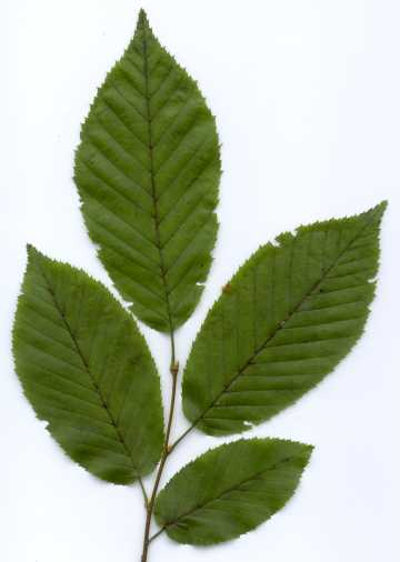 Carpinus caroliniana